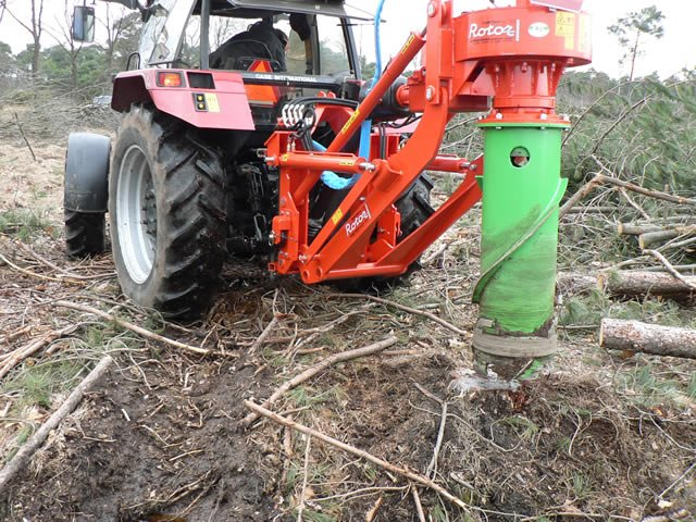 One Rotor stump grinder works in forest with one tractor.